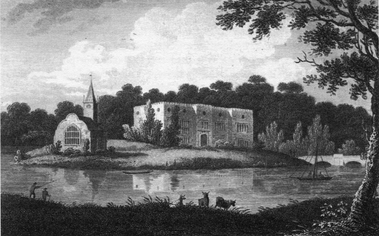 An engraving from a drawing by Sir Richard Colt Hoare, who died in 1838